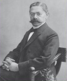 The founder of Orenstein & Koppel (O&K), Benno Orenstein